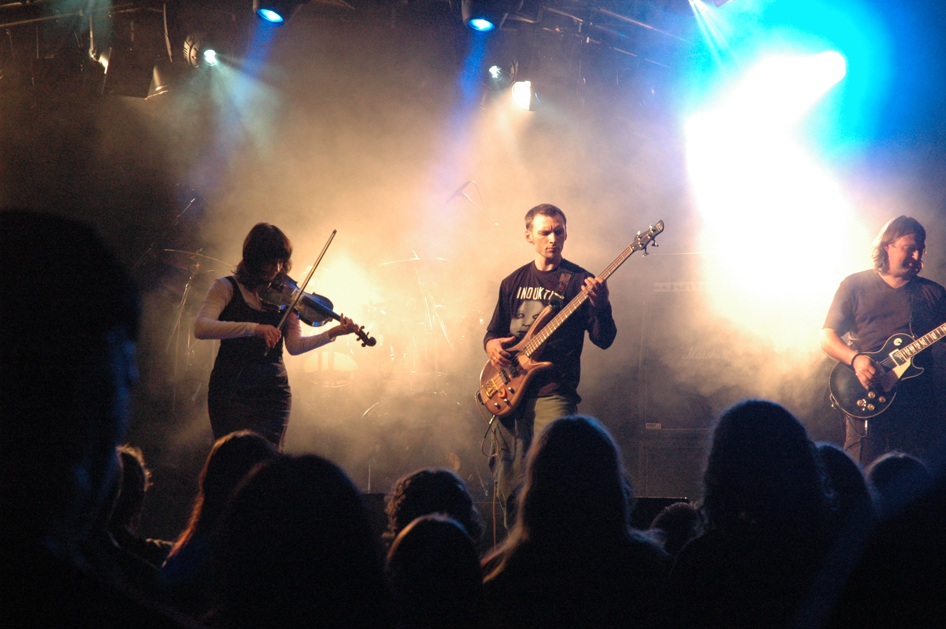 Indukti on Motstøy Festival. Norway, October 2007